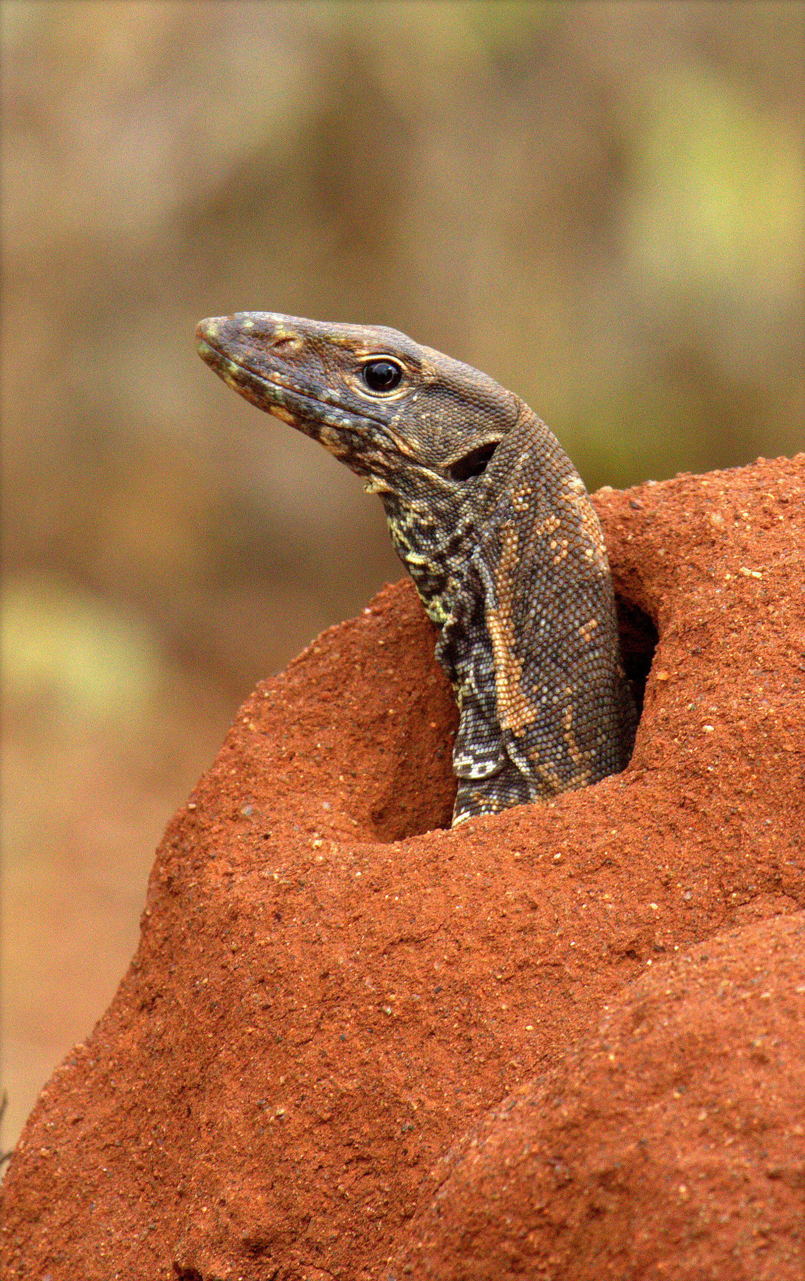 Bengal monitor (Varanus bengalensis)